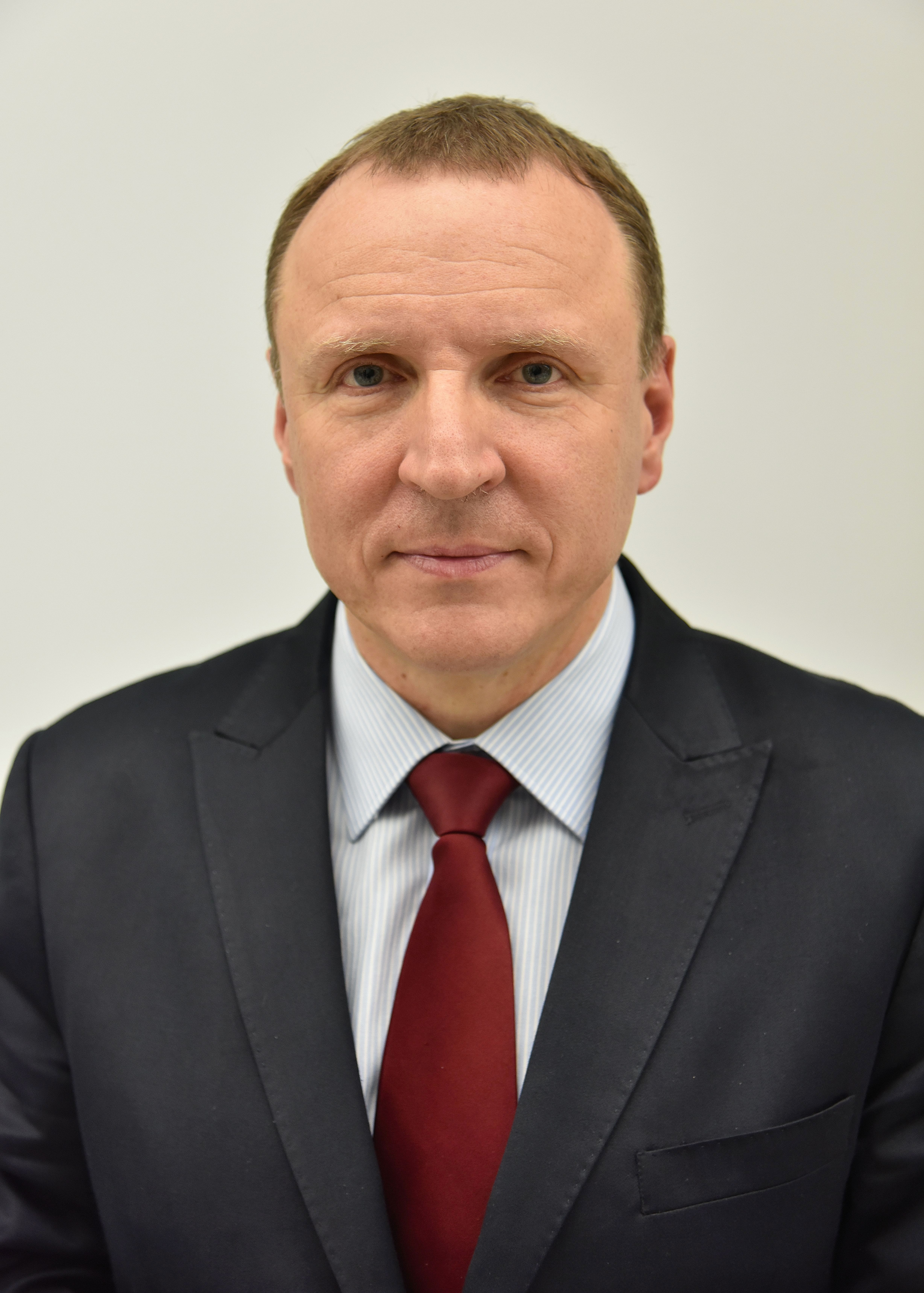 President of the Board of Telewizja Polska Jacek Kurski in the Sejm